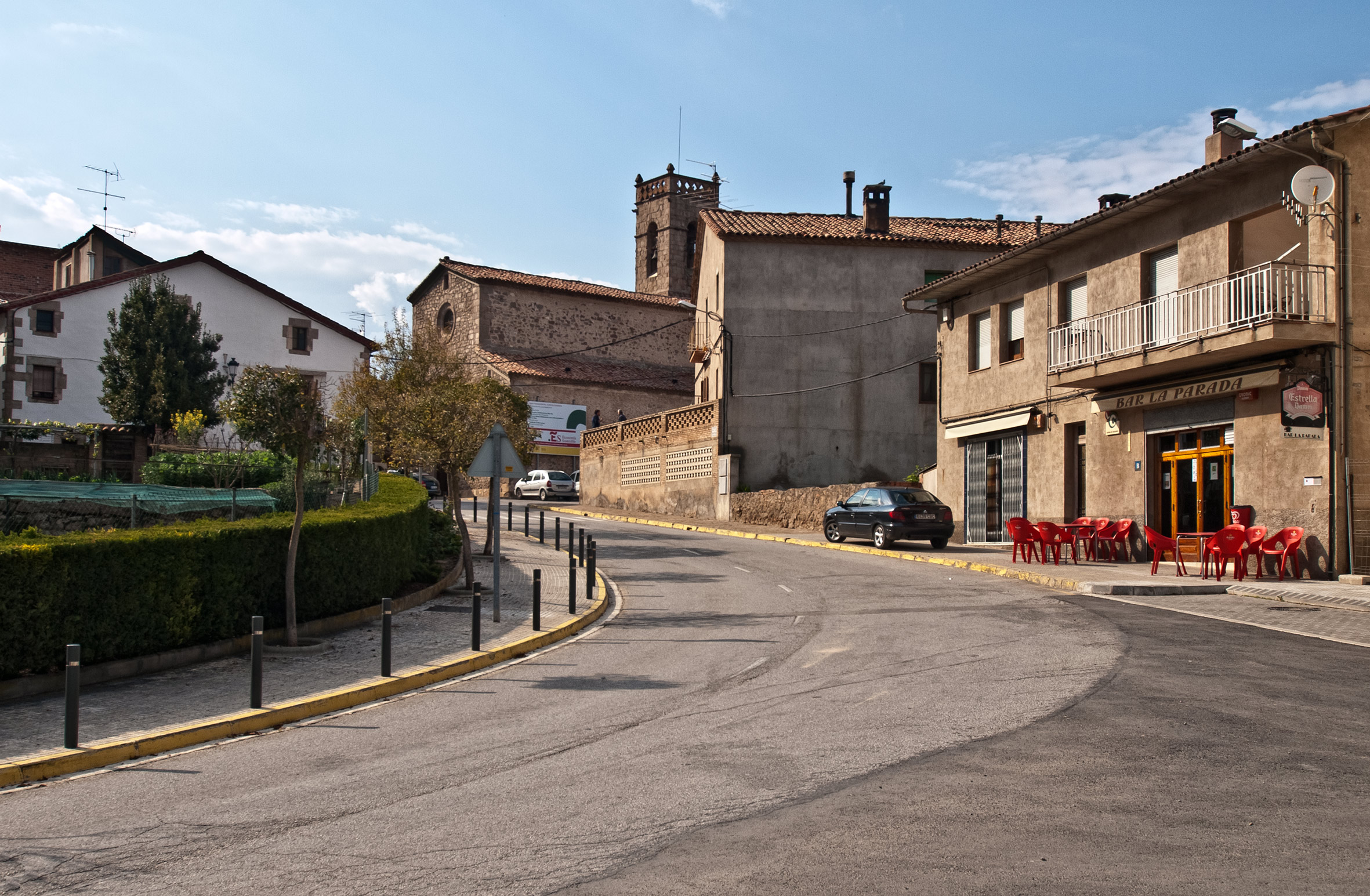 Olvan Square (Catalonia, Spain)